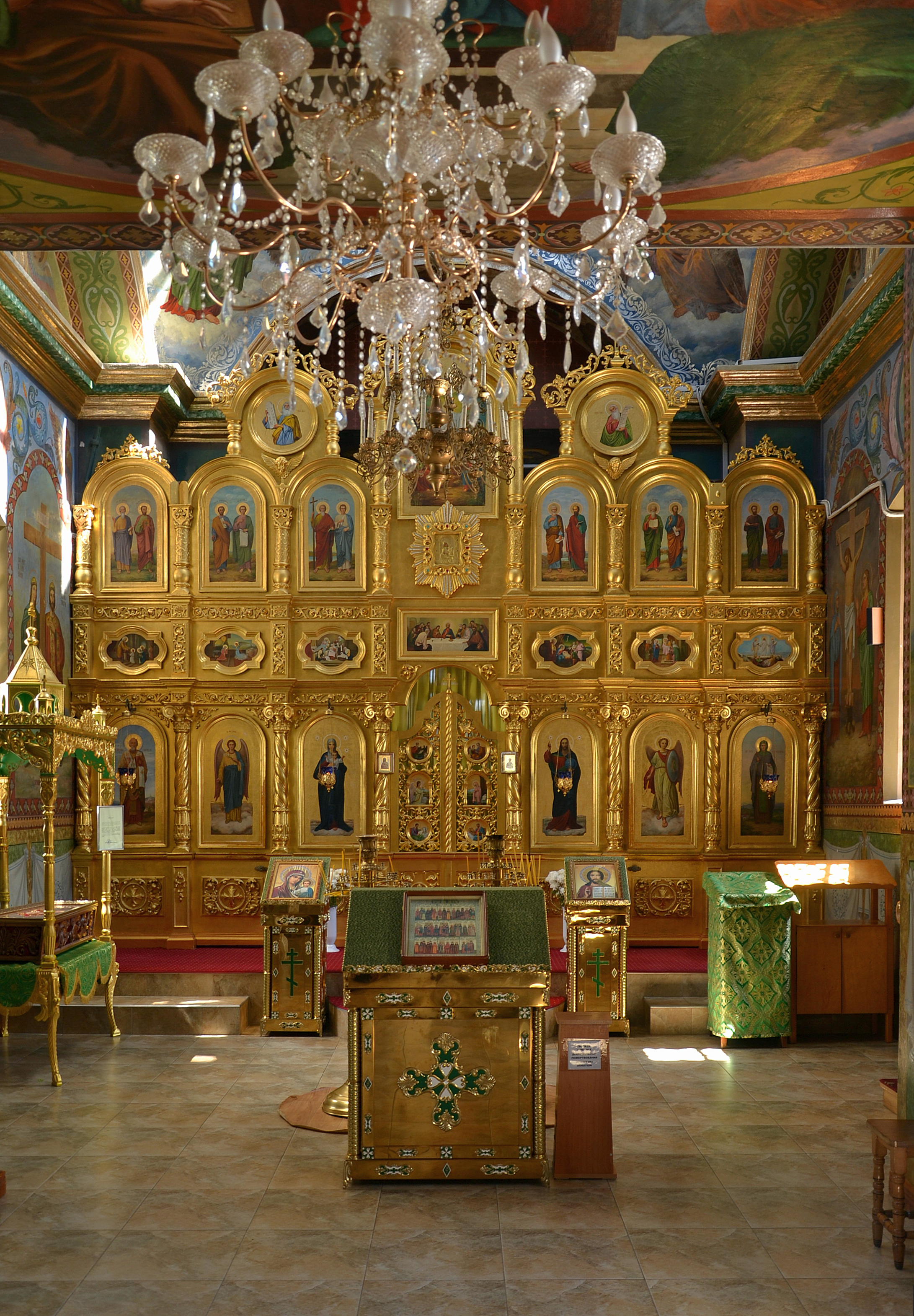 Hâncu monastery, Moldova - iconostas